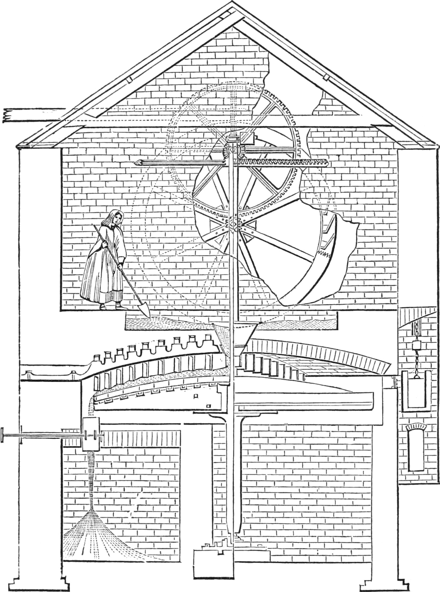 Calcining kiln invented by William Brunton (1777–1851). Title: A supplement to Ures Dictionary of Arts, Manufactures, and Mines, : containing a clear exposition of their principles and practice. Year: 1864 (1860s) Authors: Hunt, Robert, 1807-1877 Subjects: Publisher: New York : Appleton and company Text Appearing Before Image: at once completely roasted, the whits from the stamps are sometimes first rag (orpartially) burnt, for al)out six or eight hours. The object of this partial burning is to save 746 METALLURGY. time and expense, nearly three-fourths of it being thrown away after dressing it from thefirst burning. Fig. 423. The machine called originally Bruntons Patent Calciner, for calcining tin 423 Text Appearing After Image: ore, is gradually coming into use in Cornwall, ana is adopted in many of the larger mines.Its operation may be thus briefly described :—A revolving circular tabic, usually 8 feet, or10 feet in diameter, turned by a water-wheel, receives through the hopper the tin stuff tobe roasted or calcined. The frame of the table is made of cast-iron, with bands, or rings,of wrought iron, on which rests the fire-bricks composing the surface of the table. The flames from each of the two fireplaces pass over the ore as it lies on the table, which slowly revolves, at the rate of about once in every quarter of an hour. In the top of the dome, over the table, are fixed three cast-iron frames called the spider, from which depend nu-merous iron coulters, or teeth, which stir up the tin stuff, as it is carried round under them.The coulters on one of the arms of the spider are fixed obliquely, so as to turn the oredownwards from one to the other—the last one at the circumference of the table, project-ing